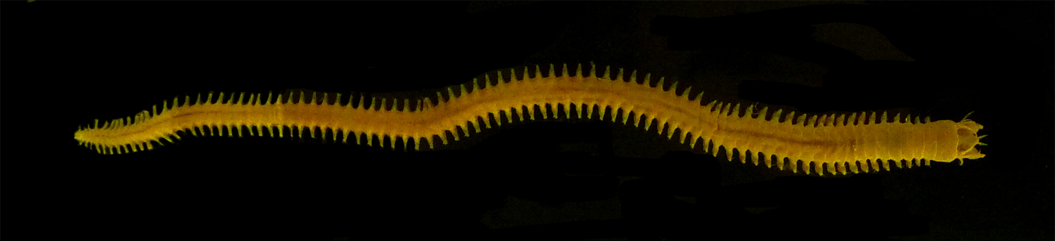 Nereis pelagica in the formol